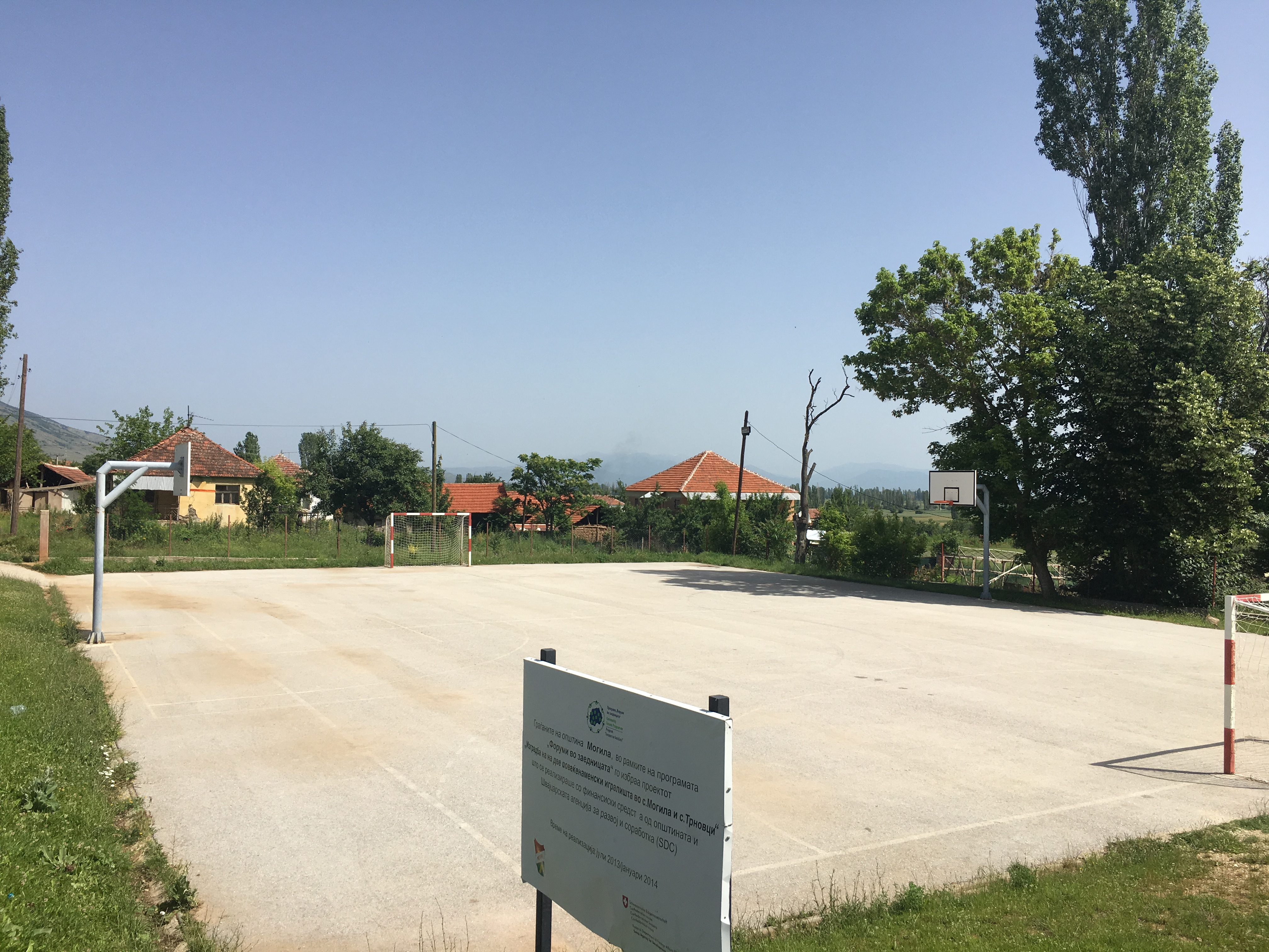 A playing ground in primary school's yard in the village of Trnovci